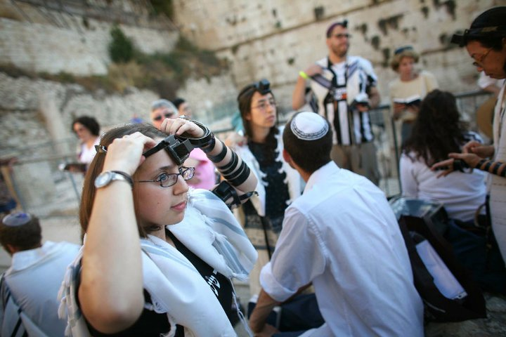 Young woman placing her tefillin with Women of the Wall minyan.